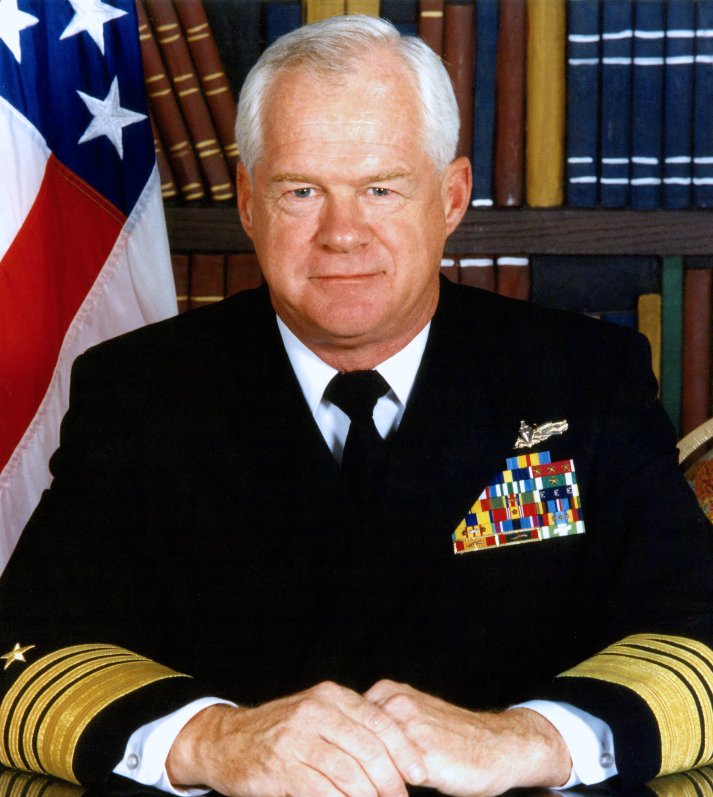 Admiral William J. Flanagan, Jr., former Commander in Chief, U.S. Atlantic Fleet.